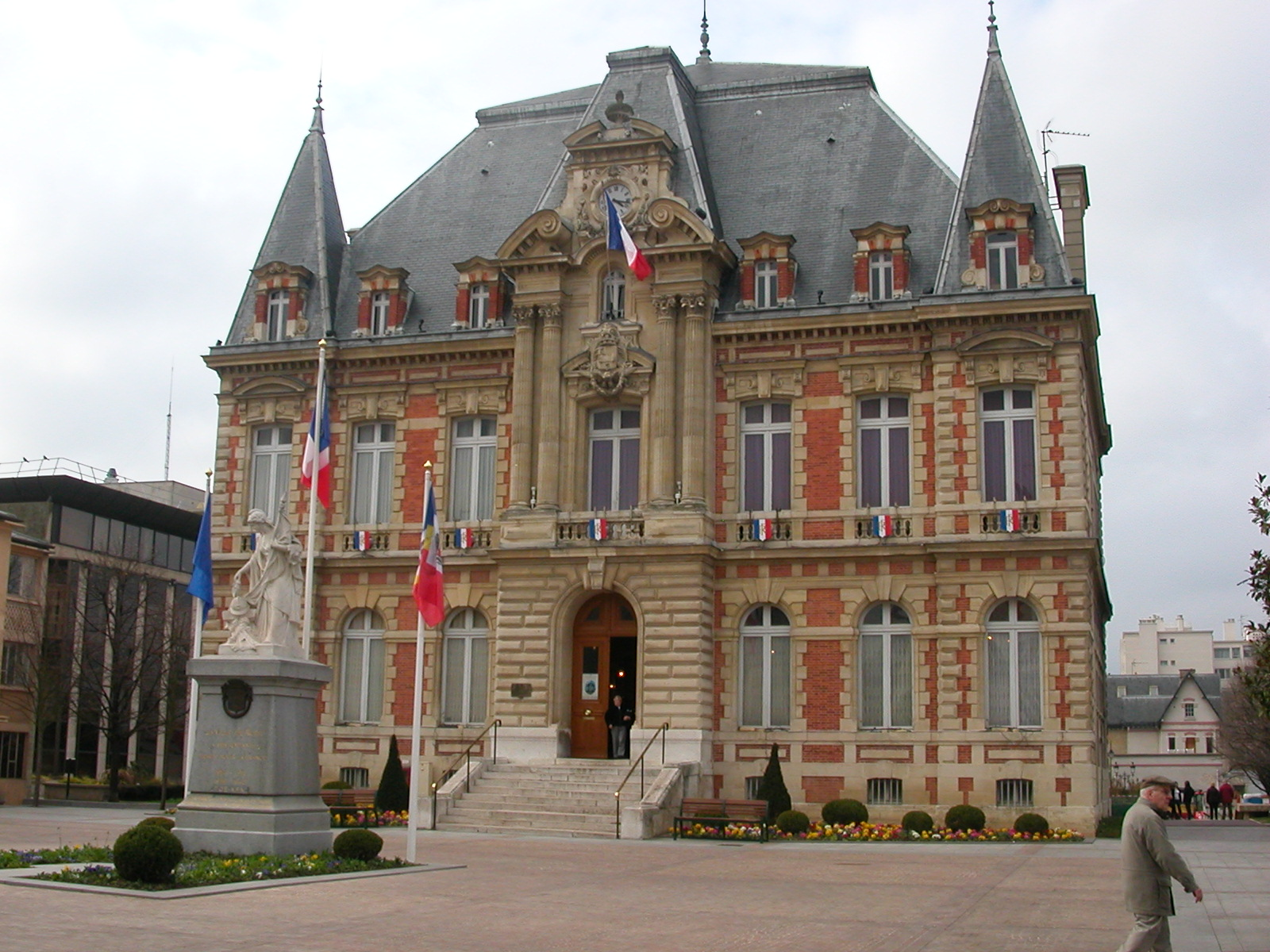 City hall of Rueil-Malmaison (on the left, in the background, the modern building) This building is indexed in the Base Mérimée, a database of architectural heritage maintained by the French Ministry of Culture, under the references IA00064604 and IA00064587.